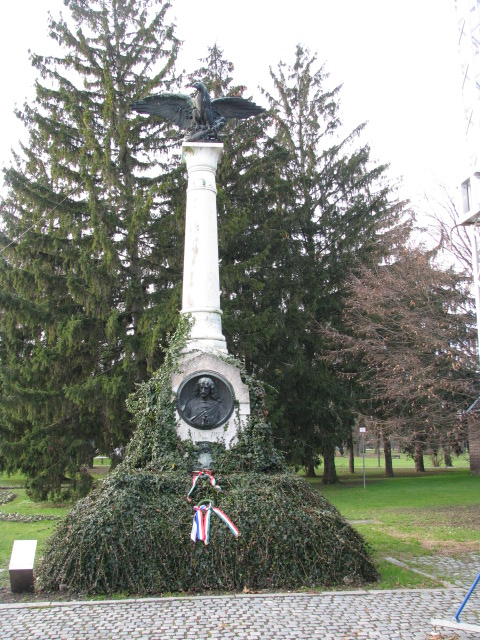 Nikola Zrinski's Column in Čakovec